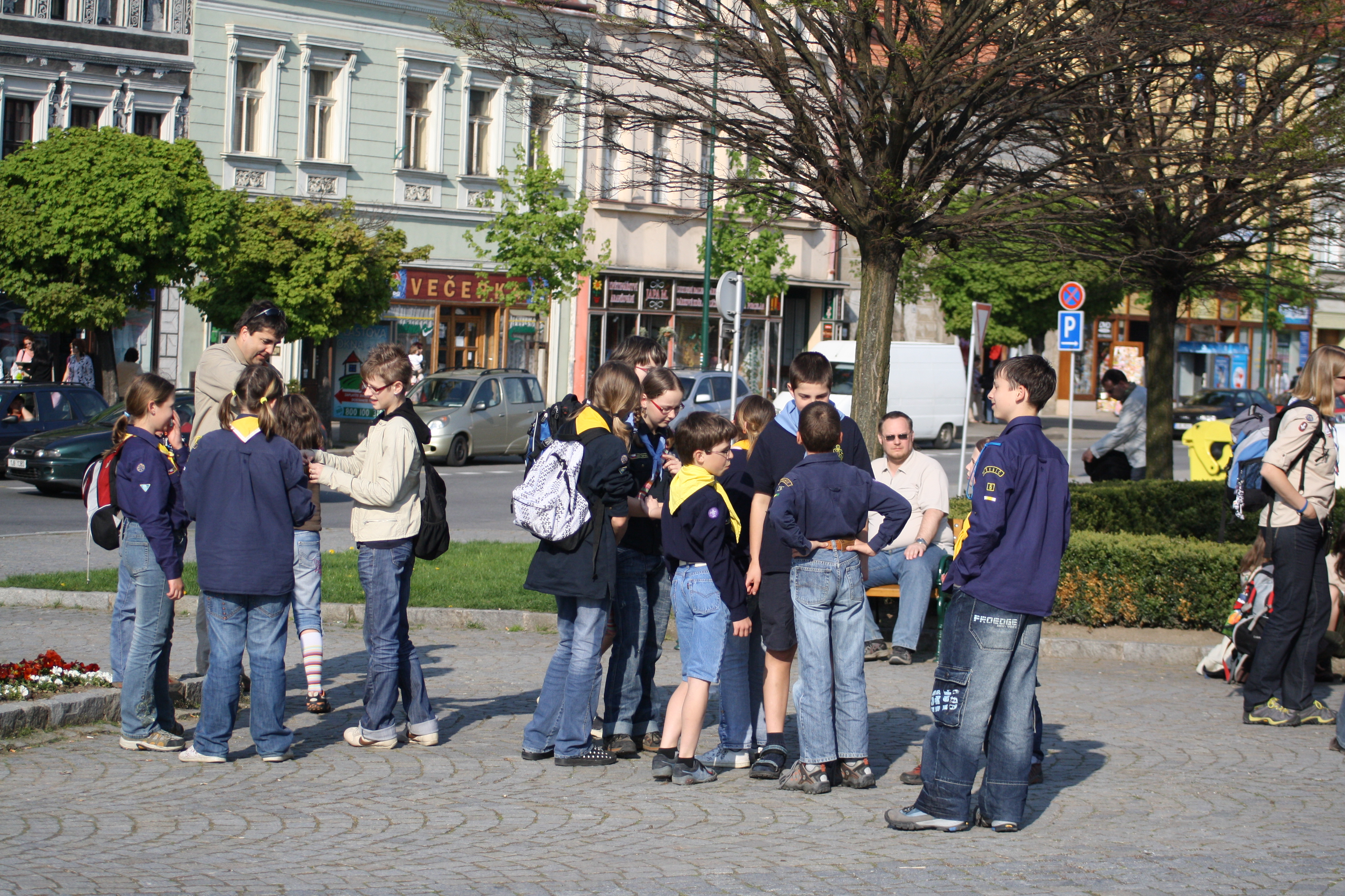 Water Scouts at Day in uniforms at Charles Square in Třebíč, Czech Republic.